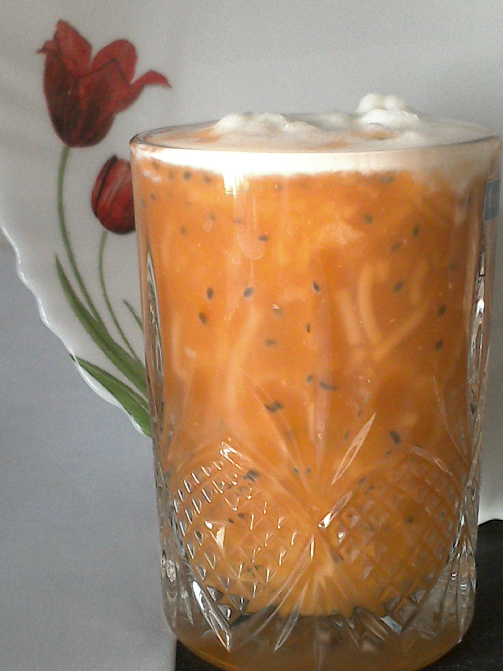 Falooda is a popular milk drink in India